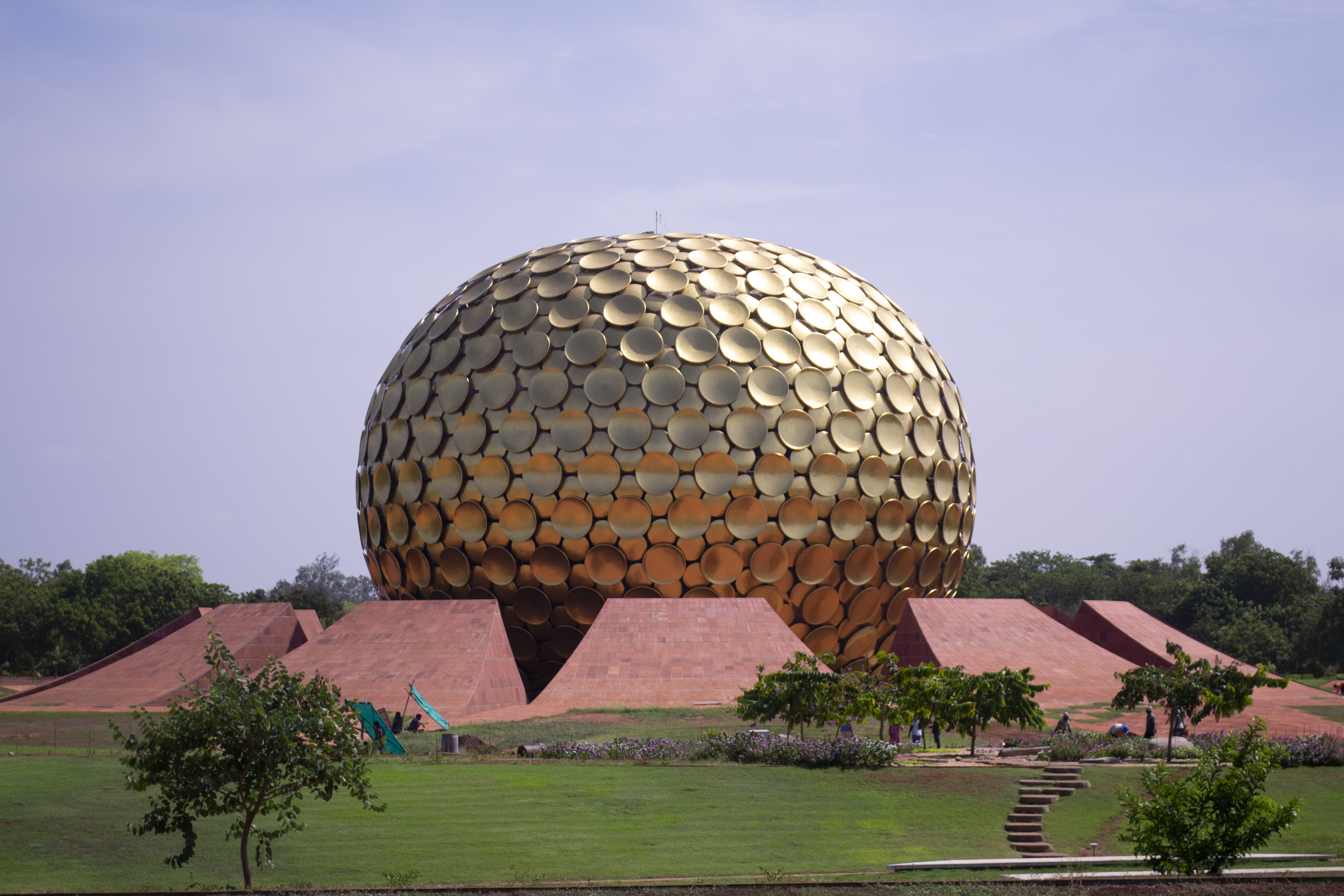 Matrimandir is built in the centre of Auroville, Pondicherry. It is a sphere-shaped temple that does not belong to any specific religion or commune. This temple has a dome inside it and there is pin-drop silence in the main chamber of this temple where people gather for daily meditation. ਪੰਜਾਬੀ: ਮੈਤਰੀ ਮੰਦਿਰ ਔਰੋਵਿਲ੍ਹੇ, ਪੌਂਡੀਚੇਰੀ ਦੇ ਕੇਂਦਰ ਵਿੱਚ ਬਣਿਆ ਹੋਇਆ ਹੈ । ਇਹ ਇੱਕ ਗੋਲਾਕਾਰ ਆਕਾਰ ਮੰਦਿਰ ਹੈ ਜੋ ਕਿਸੇ ਵਿਸ਼ੇਸ਼ ਧਰਮ ਜਾਂ ਭਾਈਚਾਰੇ ਨਾਲ ਸੰਬੰਧਿਤ ਨਹੀਂ ਹੈ । ਇਸ ਮੰਦਿਰ ਵਿੱਚ ਇਸ ਦੇ ਅੰਦਰ ਇਕ ਗੁੰਬਦ ਹੈ ਅਤੇ ਇਸ ਮੰਦਰ ਦੇ ਮੁੱਖ ਹਾਲ ਕਮਰੇ ਵਿੱਚ ਗਹਿਰੀ ਚੁੱਪ ਹੈ, ਜਿੱਥੇ ਲੋਕ ਰੋਜ਼ਾਨਾ ਧਿਆਨ ਕਰਨ ਲਈ ਇਕੱਠੇ ਹੁੰਦੇ ਹਨ ।